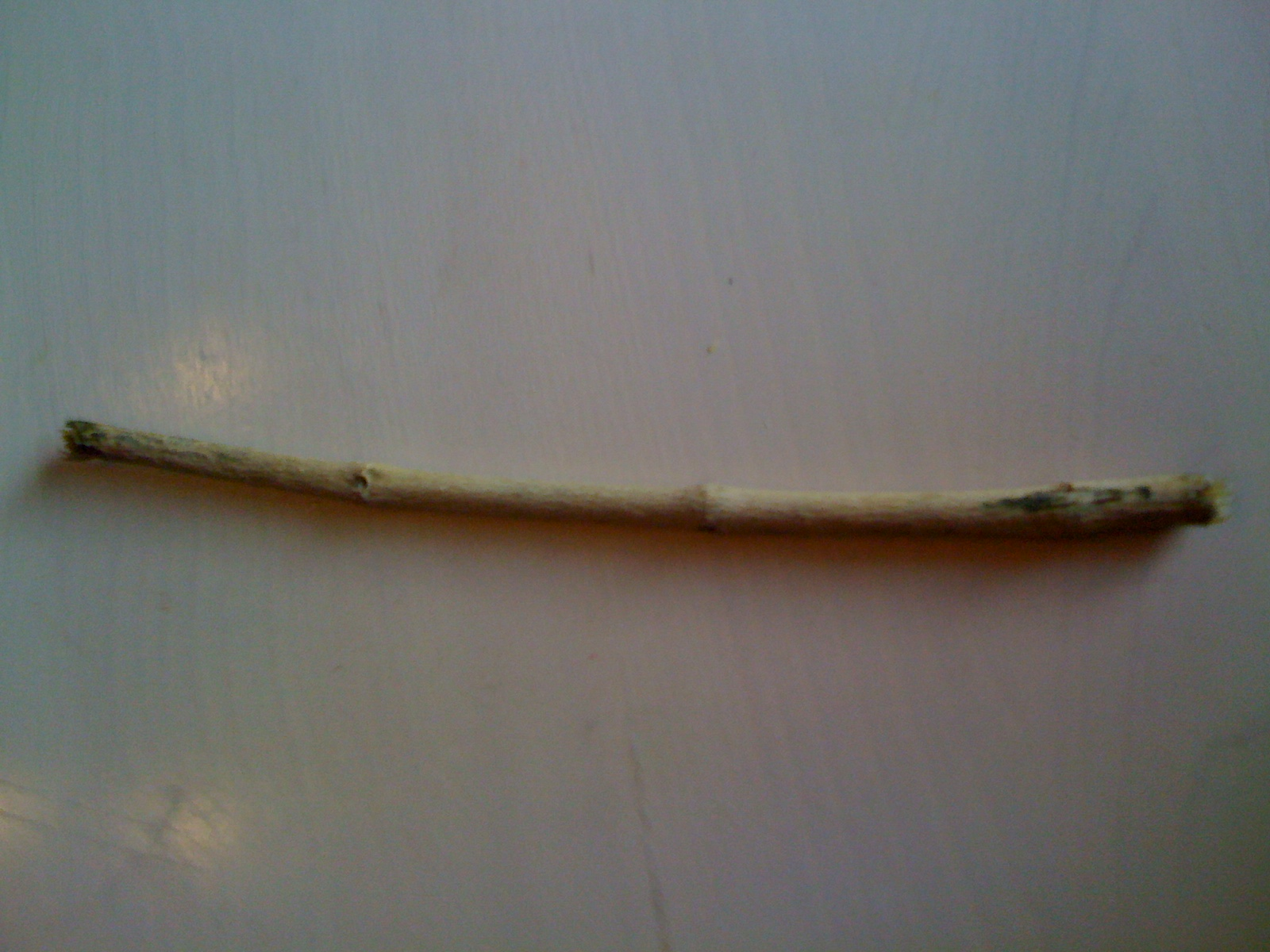 Traditional Somali miswak (rumeey) stick.